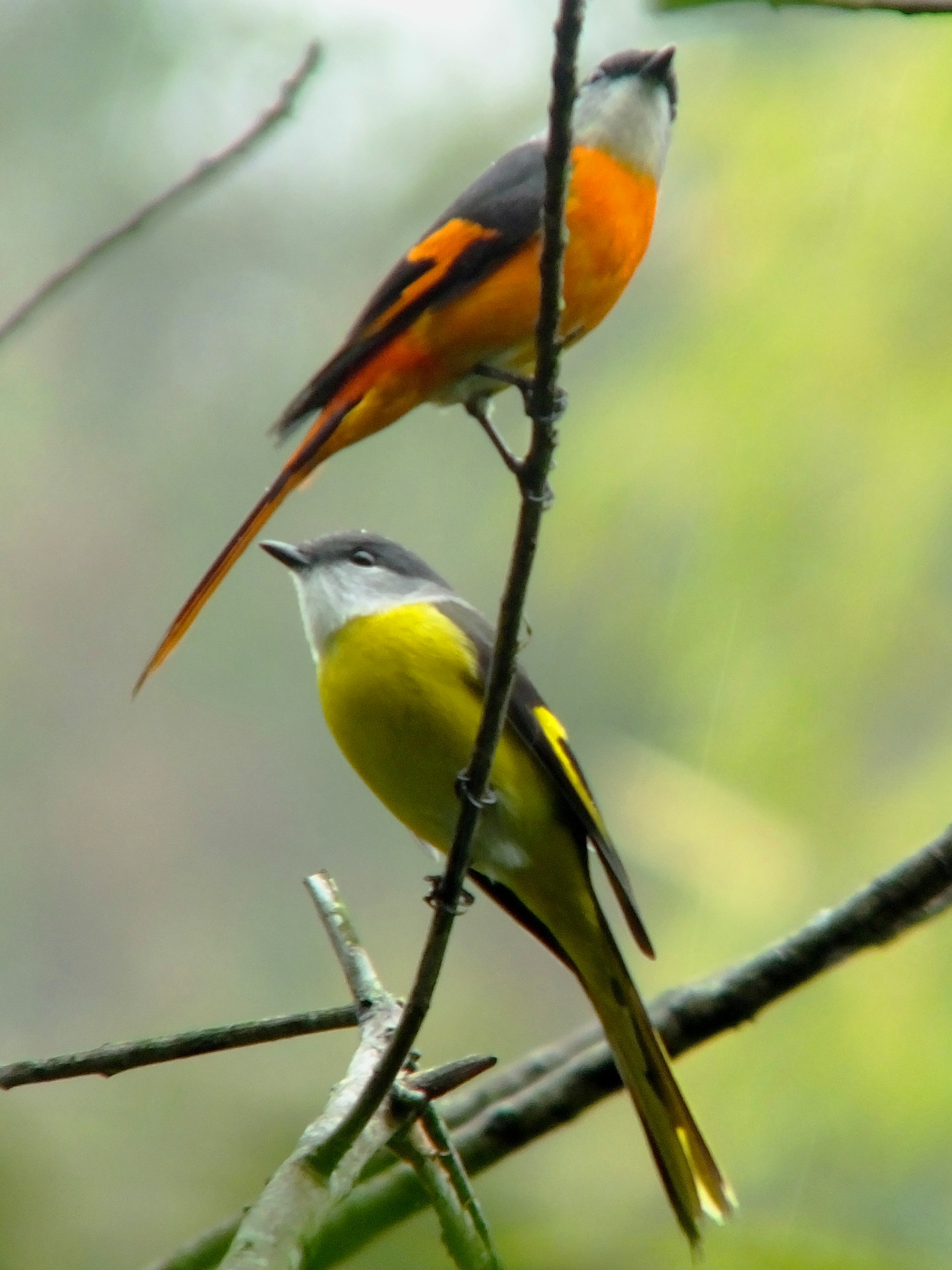 A pair of Grey-chinned Minivets in a forest in Taiwan.